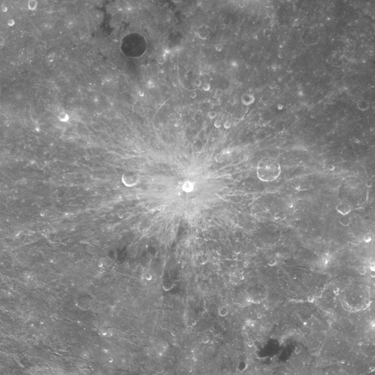 Byrgius A crater, on the moon, showing much of its bright ray system. Image width is approximately 630 km. Clementine UVVIS 750 nm mosaic.